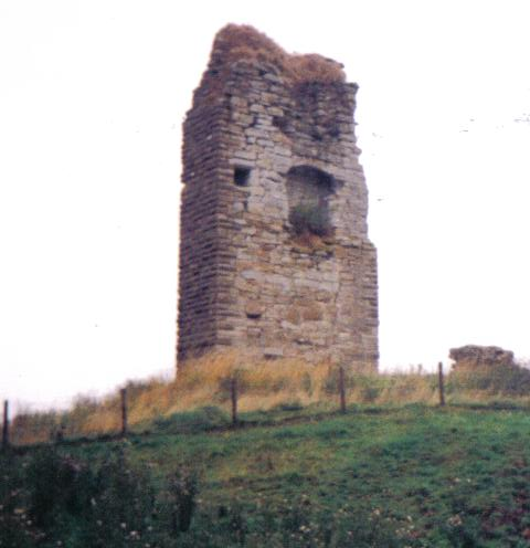 A photograph taken by me for this article